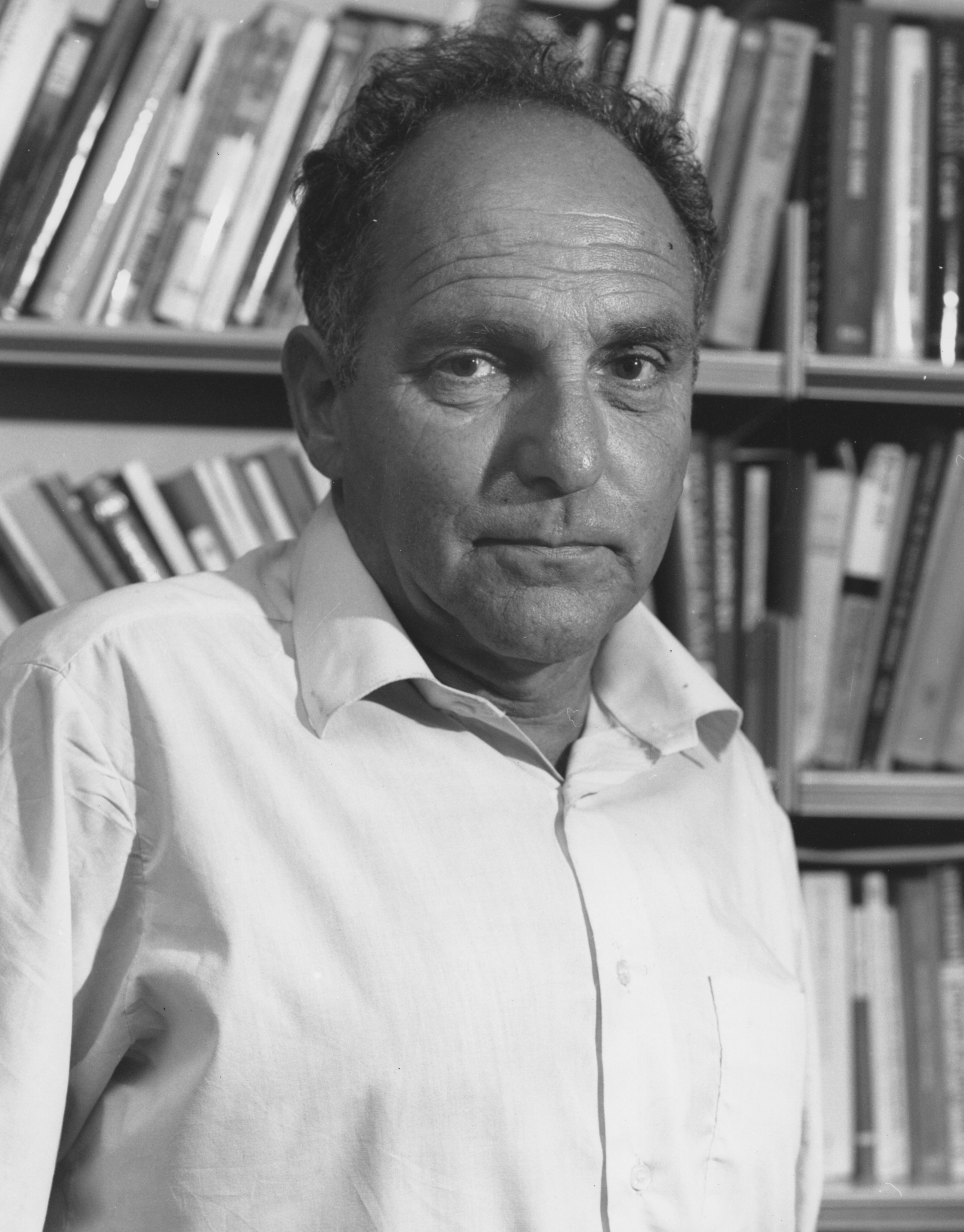 Professor of Philosophy, Logic and Scientific Method 1962-84. IMAGELIBRARY/1132 Persistent URL